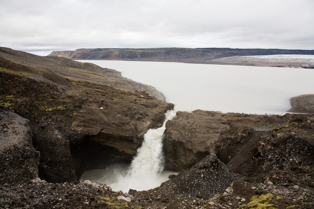 Hagavatn – View from the southeast on the eastern part of the lake. In the background Hagafell and a glacier tongue of Langjökull, in the foreground the outflow of the lake with the remains of a destroyed bridge.